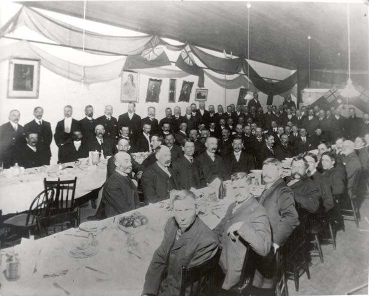 A lavish banquet held at Regina's Town Hall to celebrate the inauguration of Saskatchewan as a province, with local dignitaries in attendance to mark the occasion.